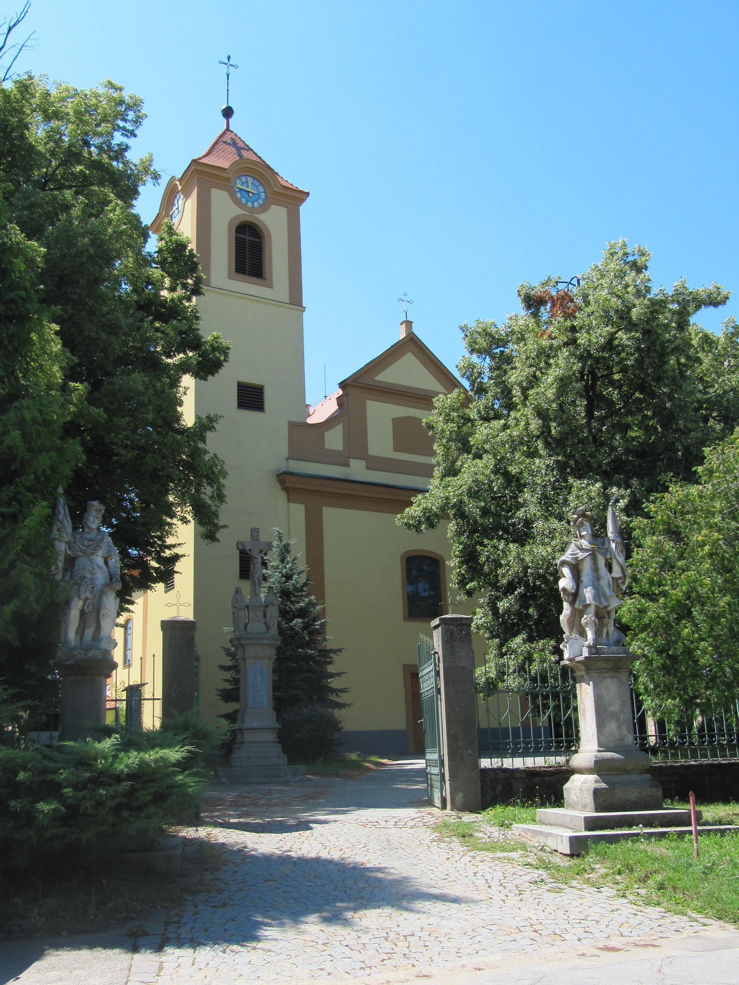 Moravská Nová Ves in Břeclav District, Czech Republic. Statues in the front of the church of St. James the Elder. This photograph was taken within the scope of the third year of the 'Czech Municipalities Photographs' grant.